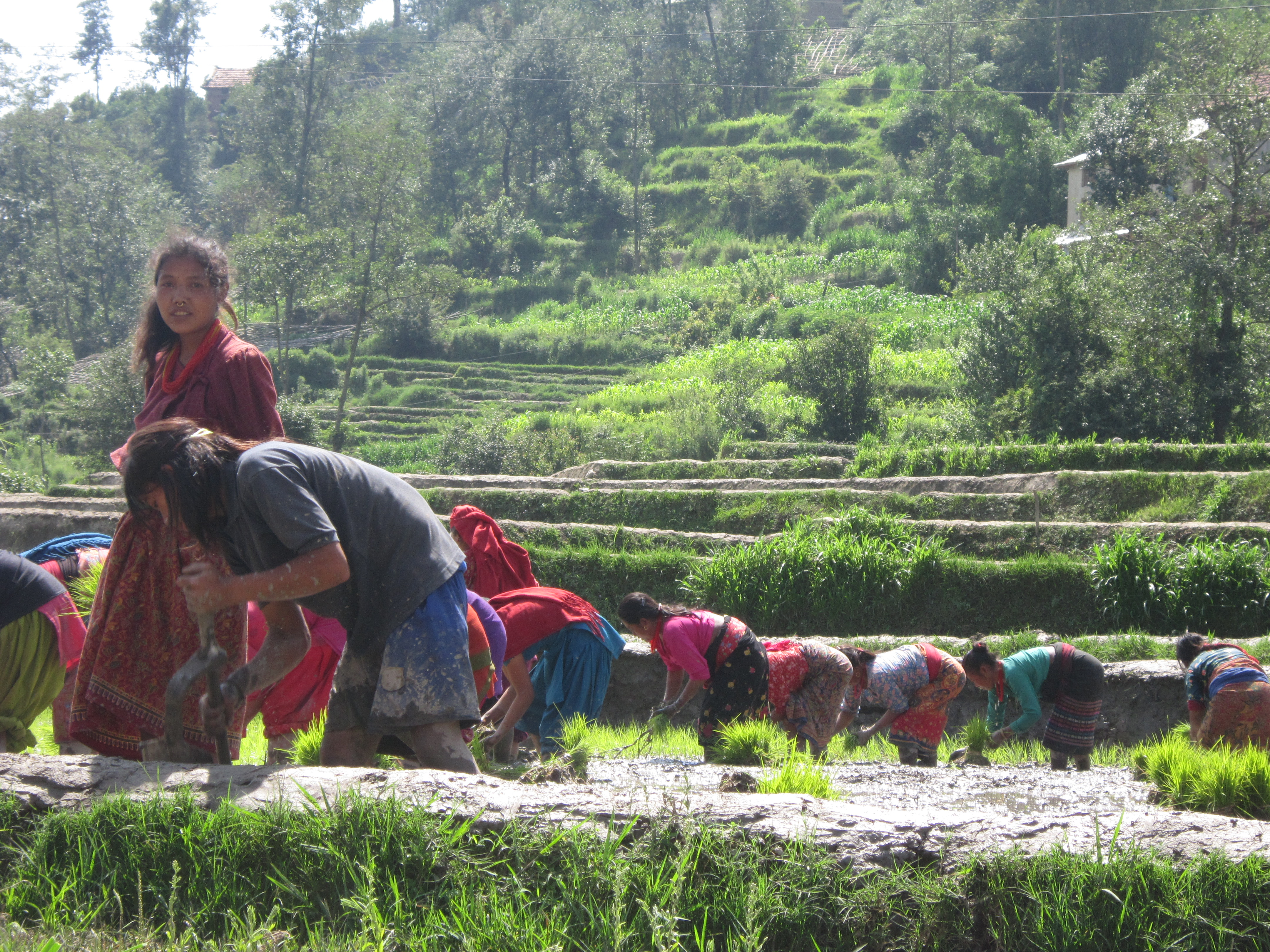 Agriculture in nepal